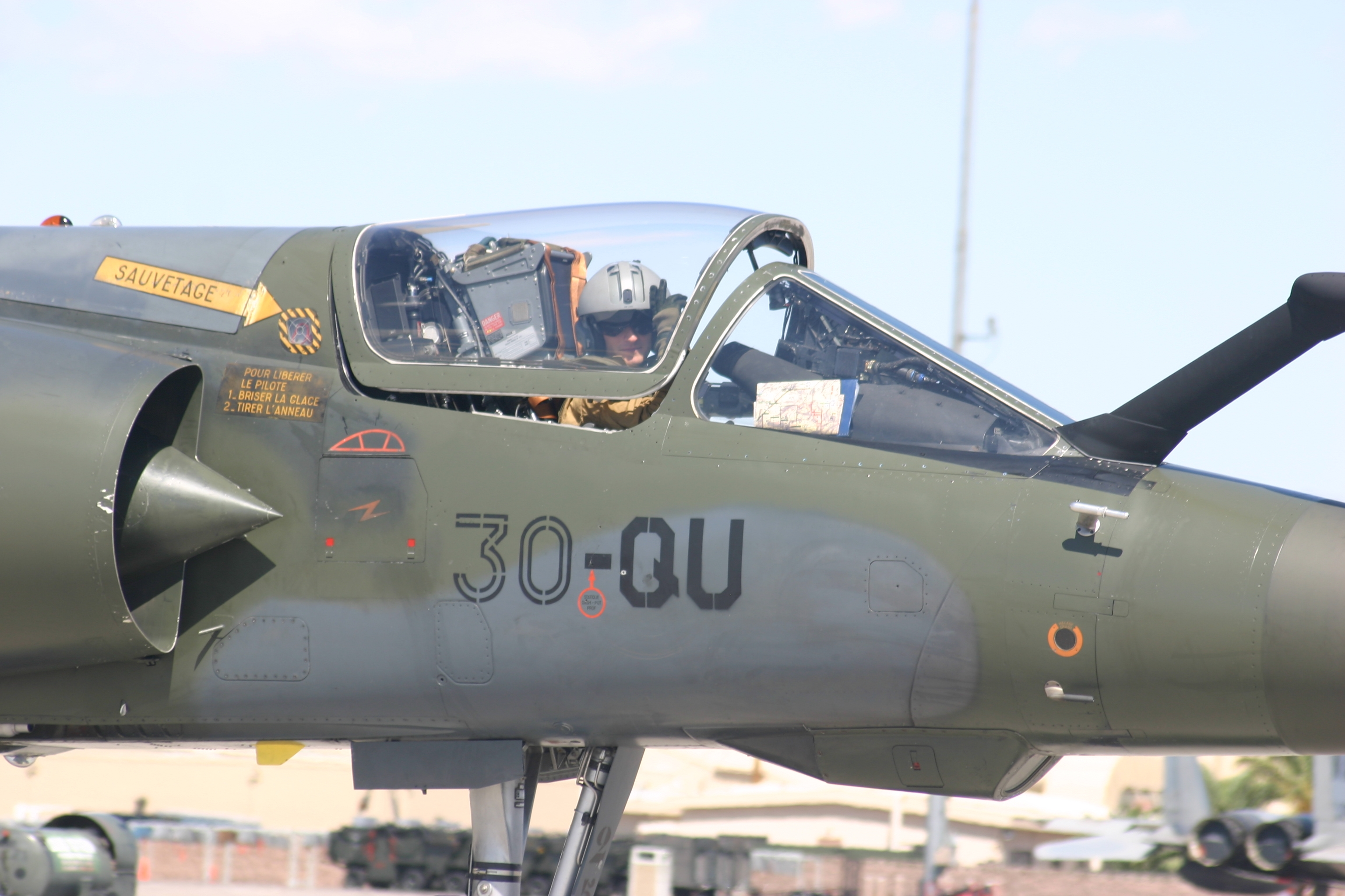 The French pilot of a Mirage F1 signals that he’s ready for take-off as part of the Green Flag West and NTC training rotations 08-10 at Nellis AFB, Nevada and Ft. Irwin, Calif.